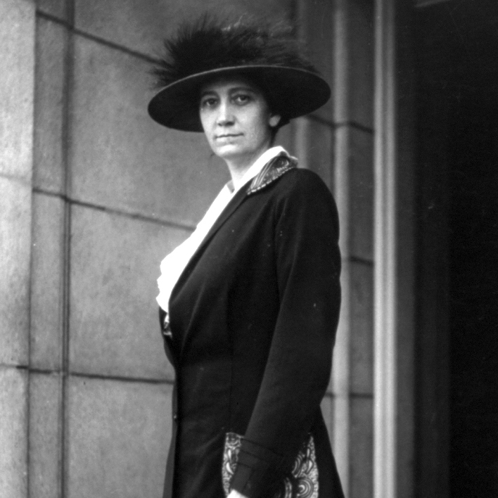 Ruth Hanna McCormick, U.S. Congresswoman from Illinois